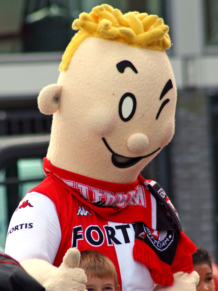 Feyenoord Training 2007-08